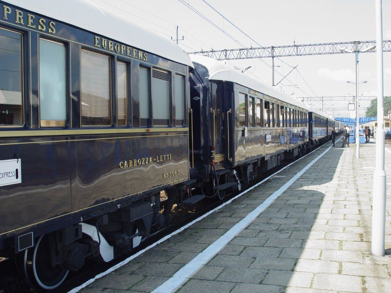 Train Orient Express (Poland 2007)